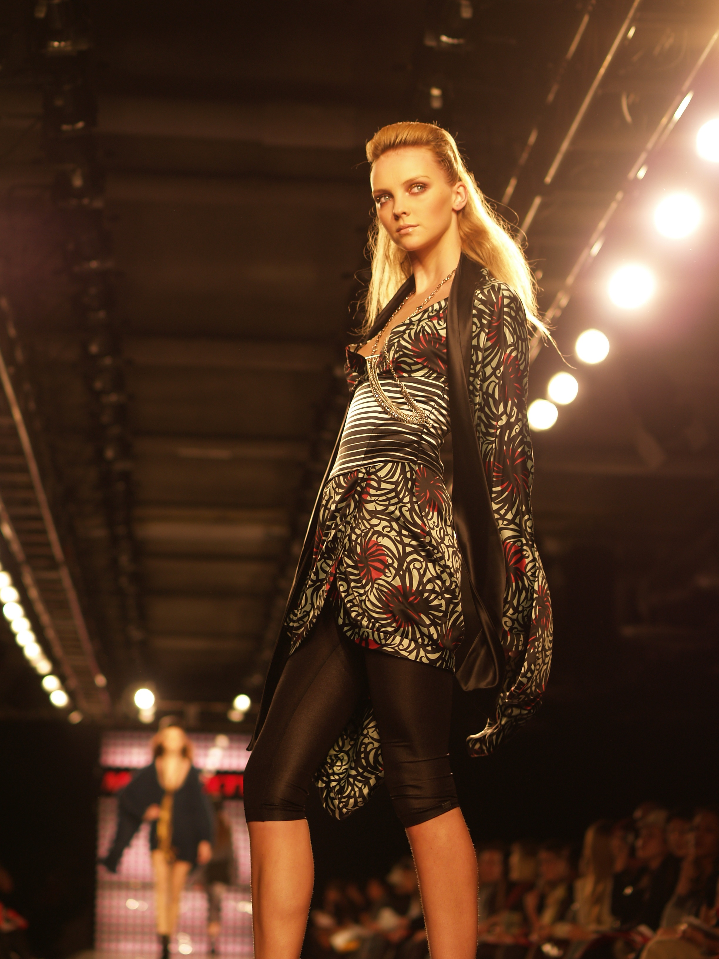 Heather Marks modeling for Miss Sixty, Fall 2007 New York Fashion Week.